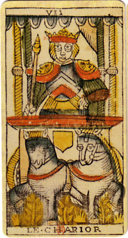 An original card from the tarot deck of Jean Dodal of Lyon, a classic Tarot of Marseilles deck which dates from 1701-1715.